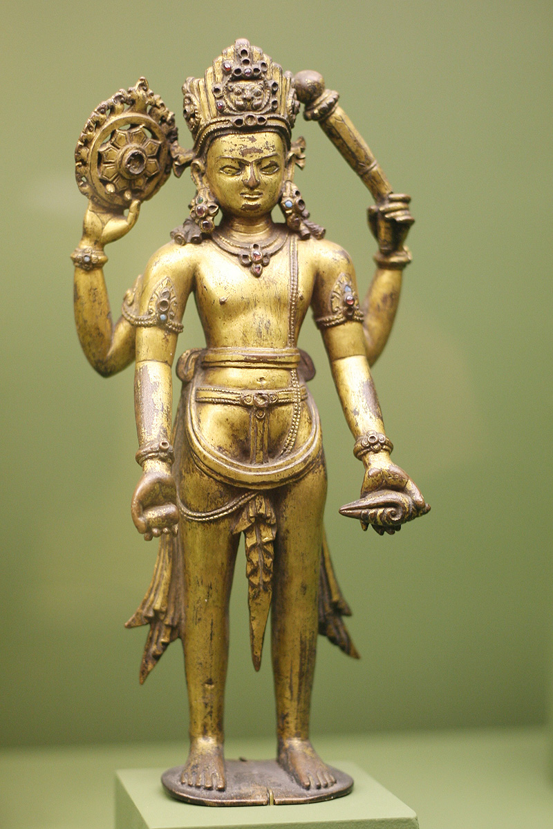 Standing Figure of Vishnu, 10th century. Gilt bronze (high copper content) Brooklyn Museum, Gift of Frederic B. Pratt, 29.18.